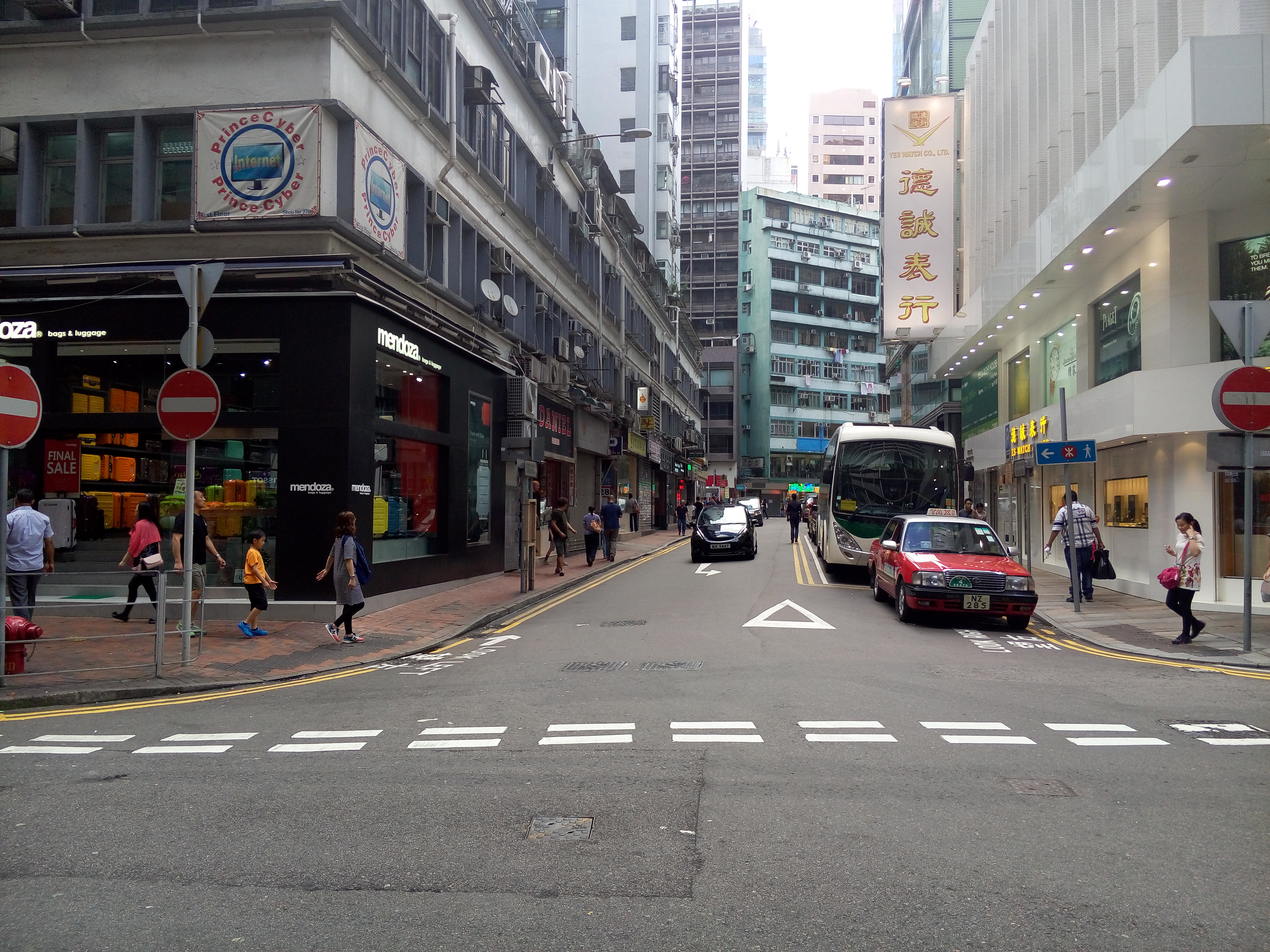 Apr.04 2015